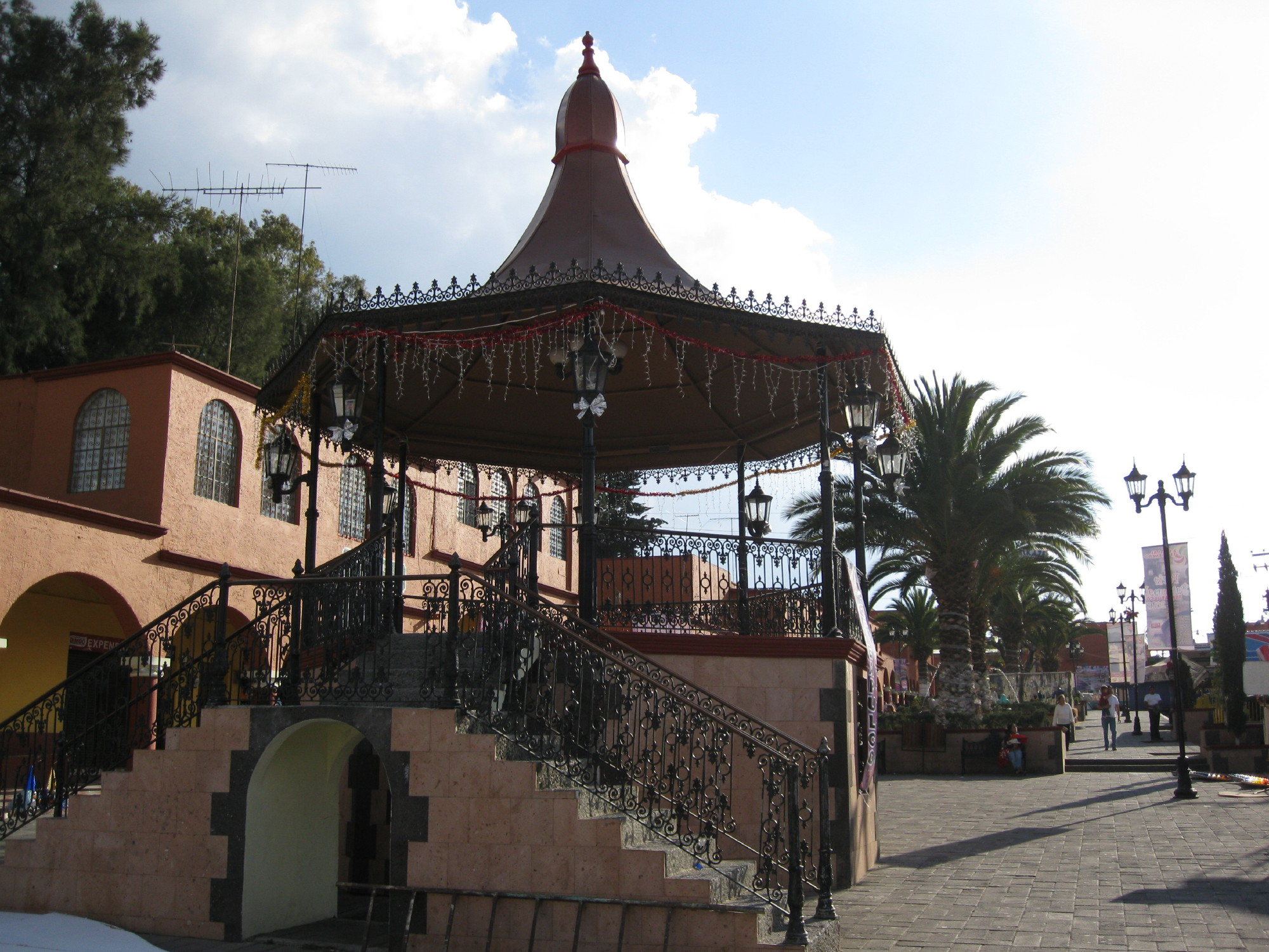 place in Tepeapulco